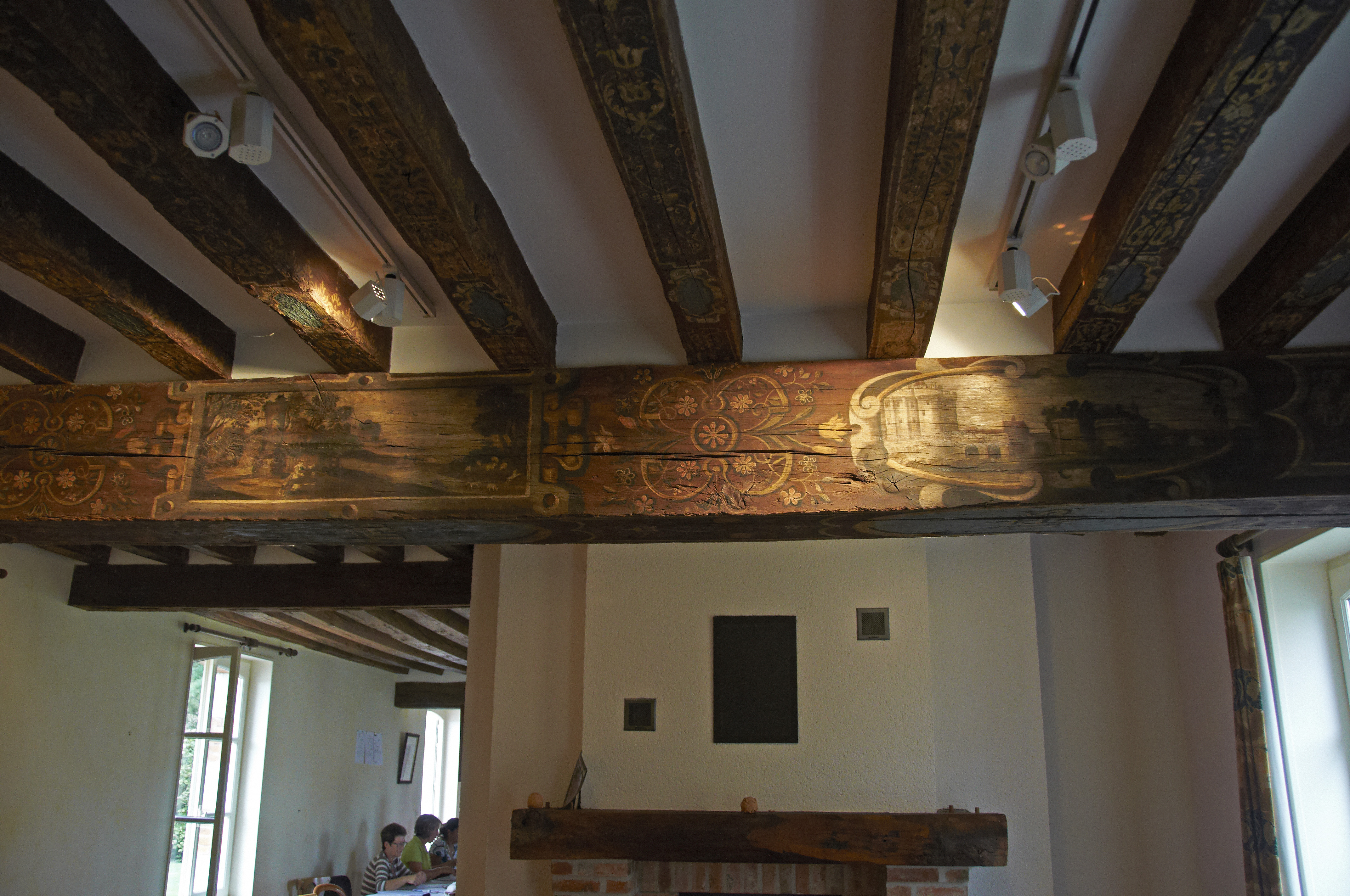 Painted beams probably from the early seventeenth century, Vouzon, France